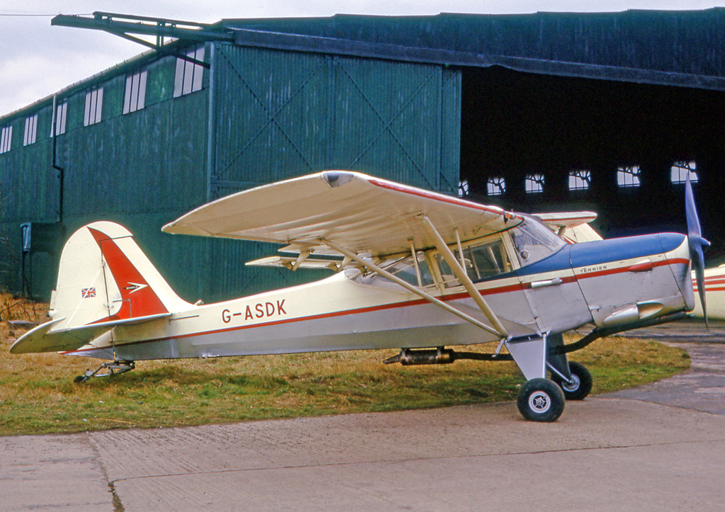 Beagle A61 Terrier 2 G-ASDK at Halfpenny Green airfield UK in 1965.